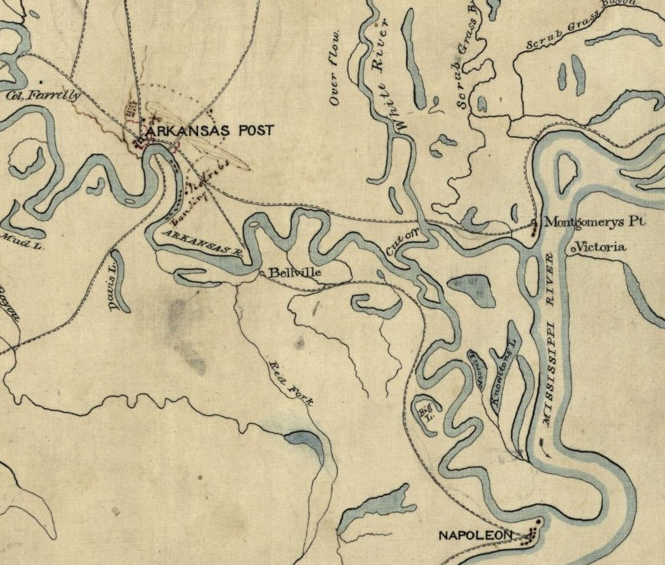 1861 Map of Arkansas Post and Napoleon Arkansas